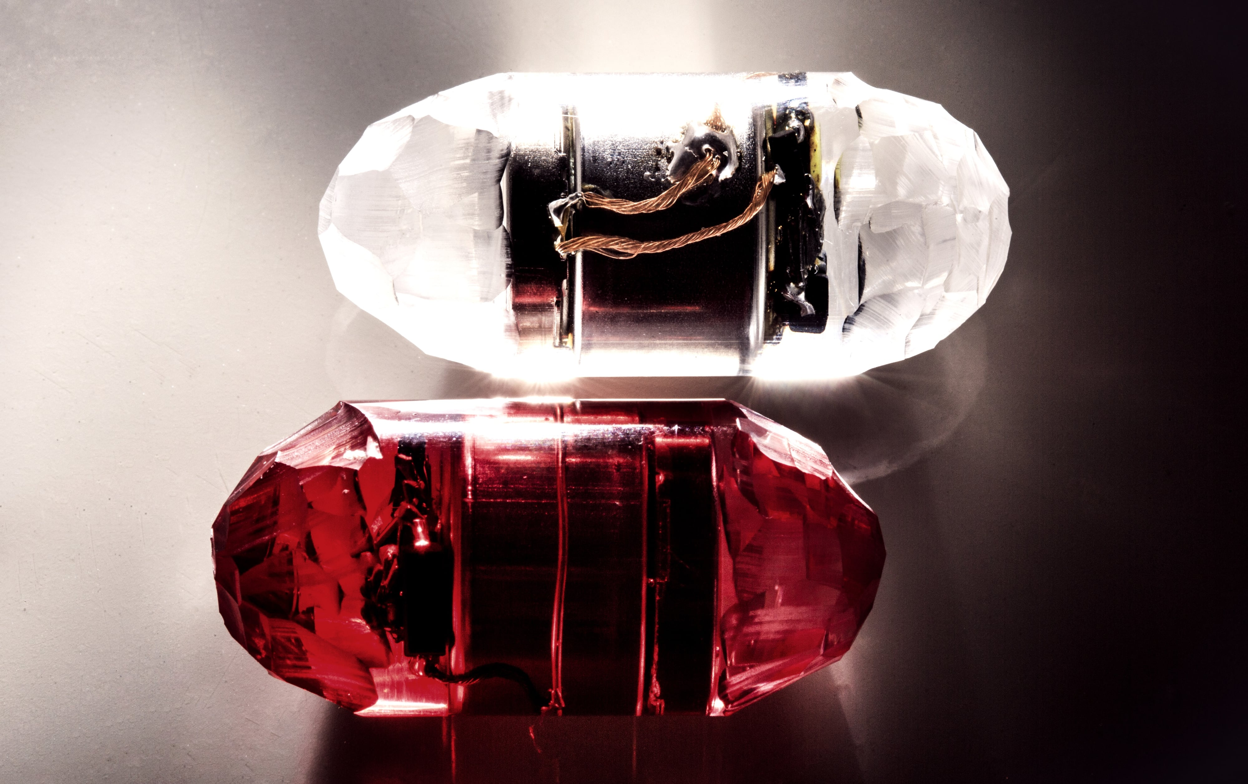 This invention is a device as small as a pill which, when swallowed, starts beating within you innards at a preset BPM. Restless feeling will pump you up to insanity.